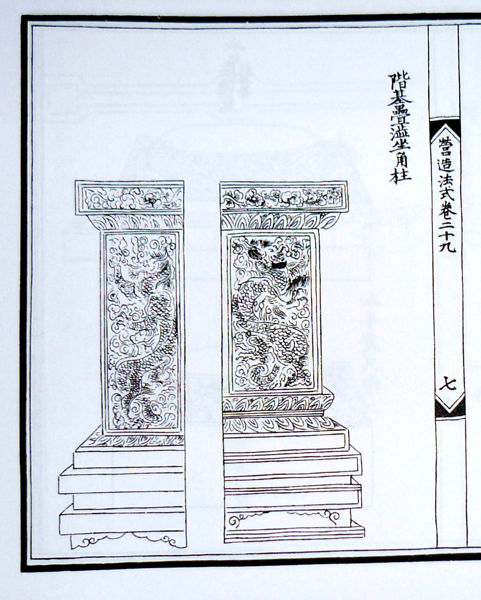 宋營造法式階基疊澀图